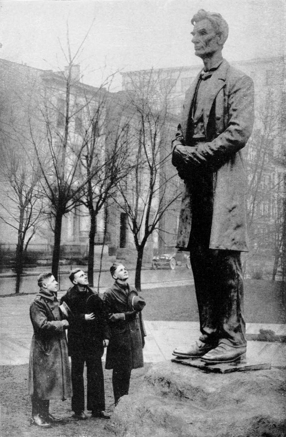 Full-length sculpture of Abraham Lincoln standing